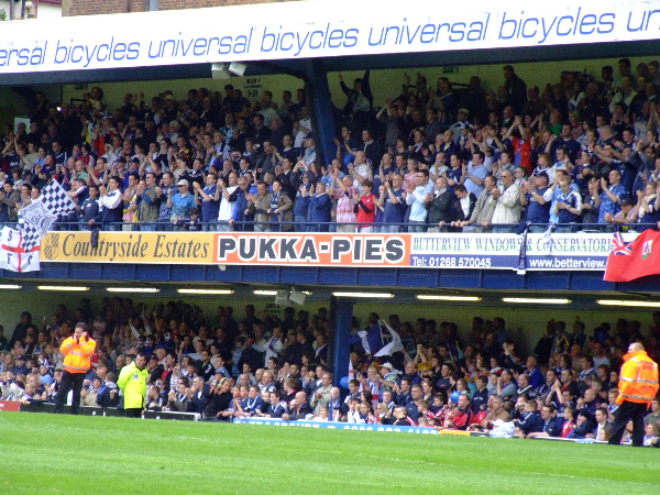 Roots Hall, Southend United F.C. Taken on the last match of 2005/6 against Bristol City on the day United won the Championship. The score was 1-0 to the blue army. Here we see family stand behind the goal-mouth. I have loads of footage of SUFC including video so any Shrimpers fans should email me.